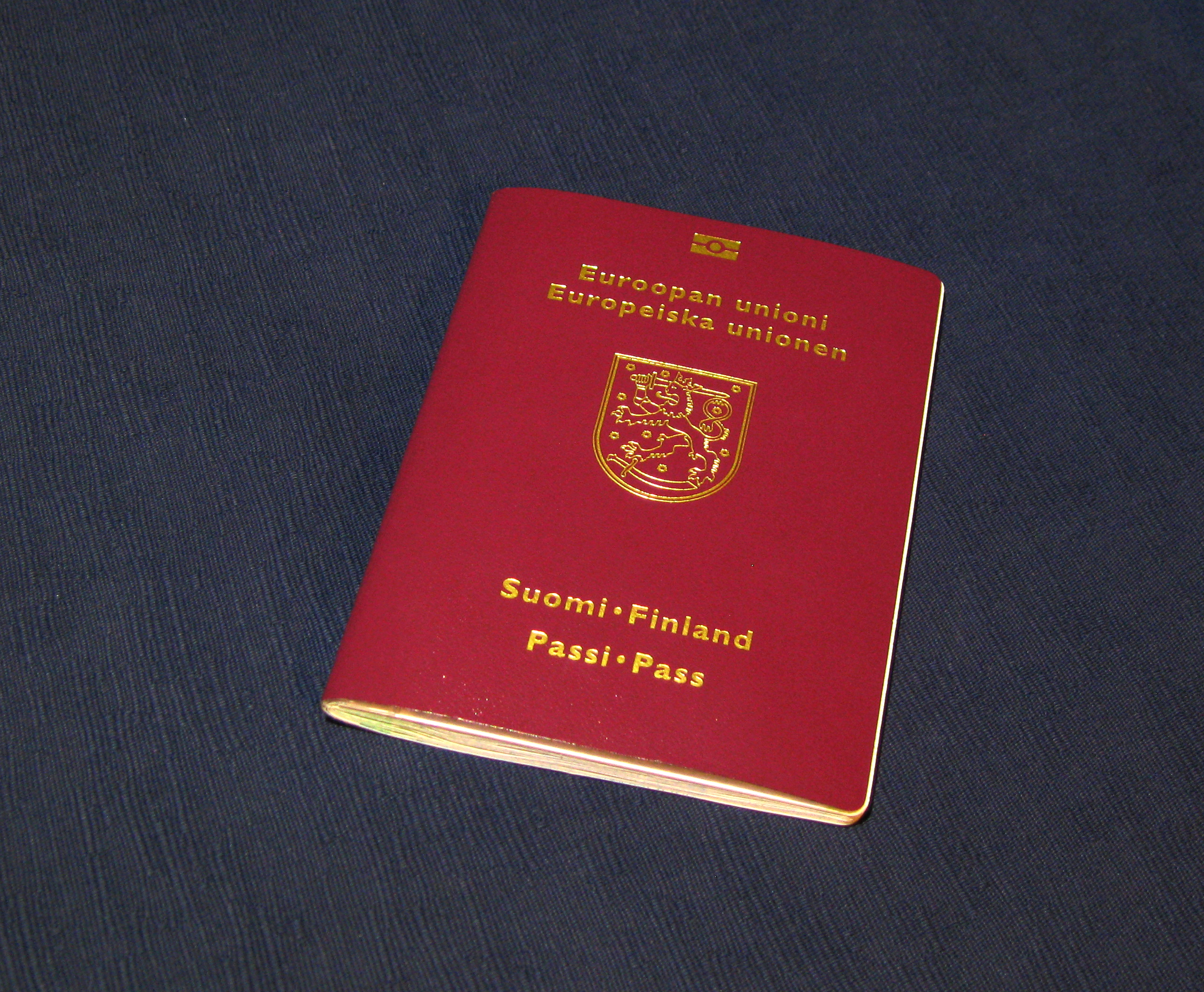 Passport of Finland 2011.